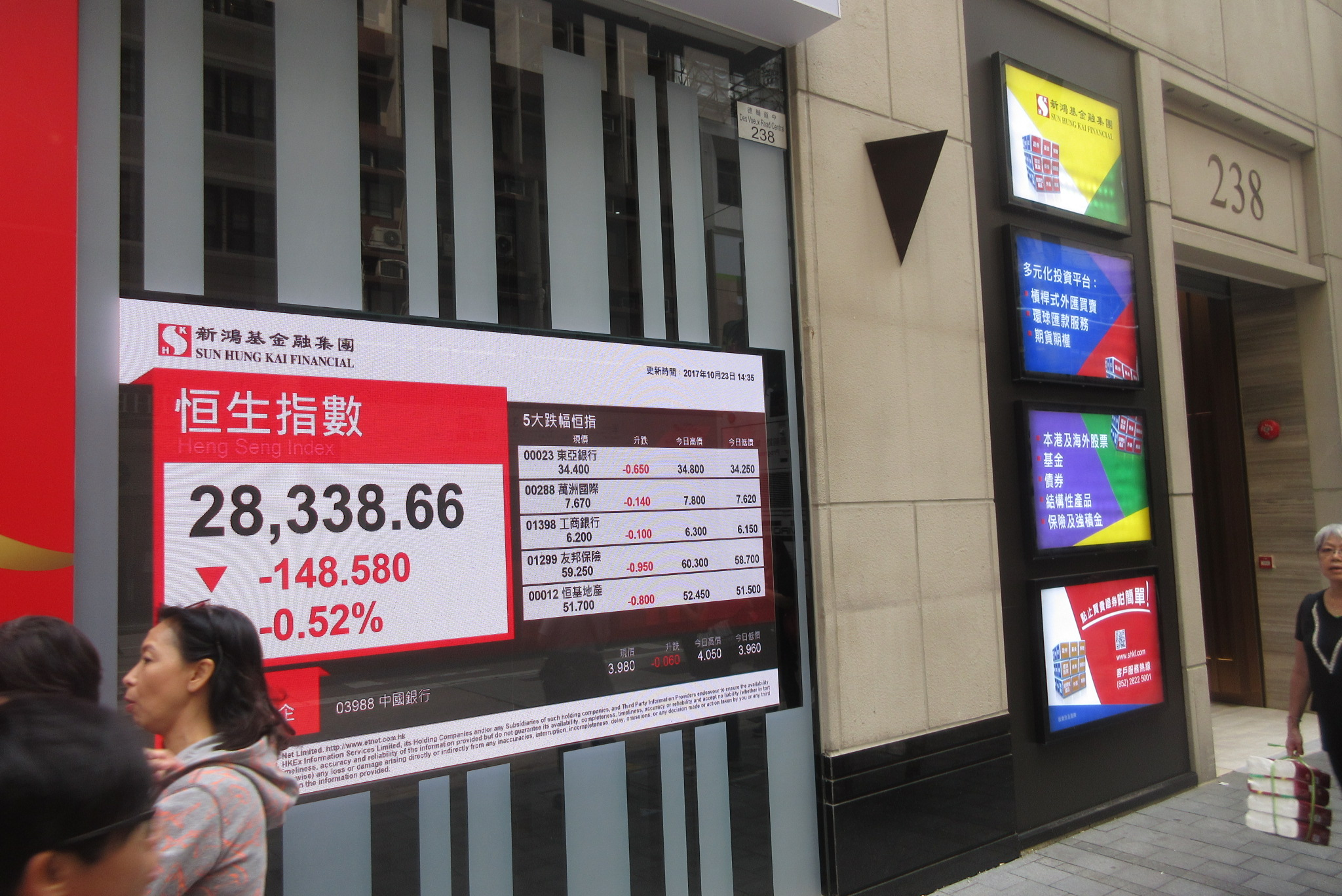 HK 上環 Sheung Wan 德輔道中 Des Voeux Road Central in October 2017